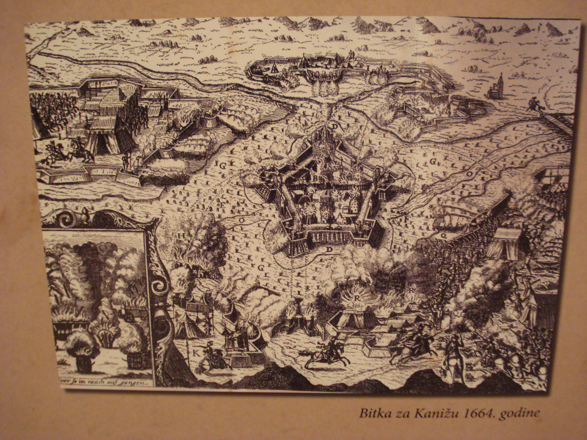 Siege of Kanizsa, southwestern Hungary, in May 1664, defended by Ottoman Turks of Kanije Eyalet, and besieged by Christian forces of Nikola VII Zrinski, Ban (Viceroy) of Croatia, general Wolfgang Julius Hohenlohe-Neuenstein and general Peter StrozziHrvatski: Opsada Kaniže, jugozapadna Ugarska, u svibnju 1664. godine, koju su branili Turci iz Kaniškog ejaleta, a opsjedale kršćanske snage pod vodstvom Nikole VII Zrinskog, hrvatskog bana, te generala Wolfganga Juliusa Hohenlohe-Neuensteina i general Petera Strozzija